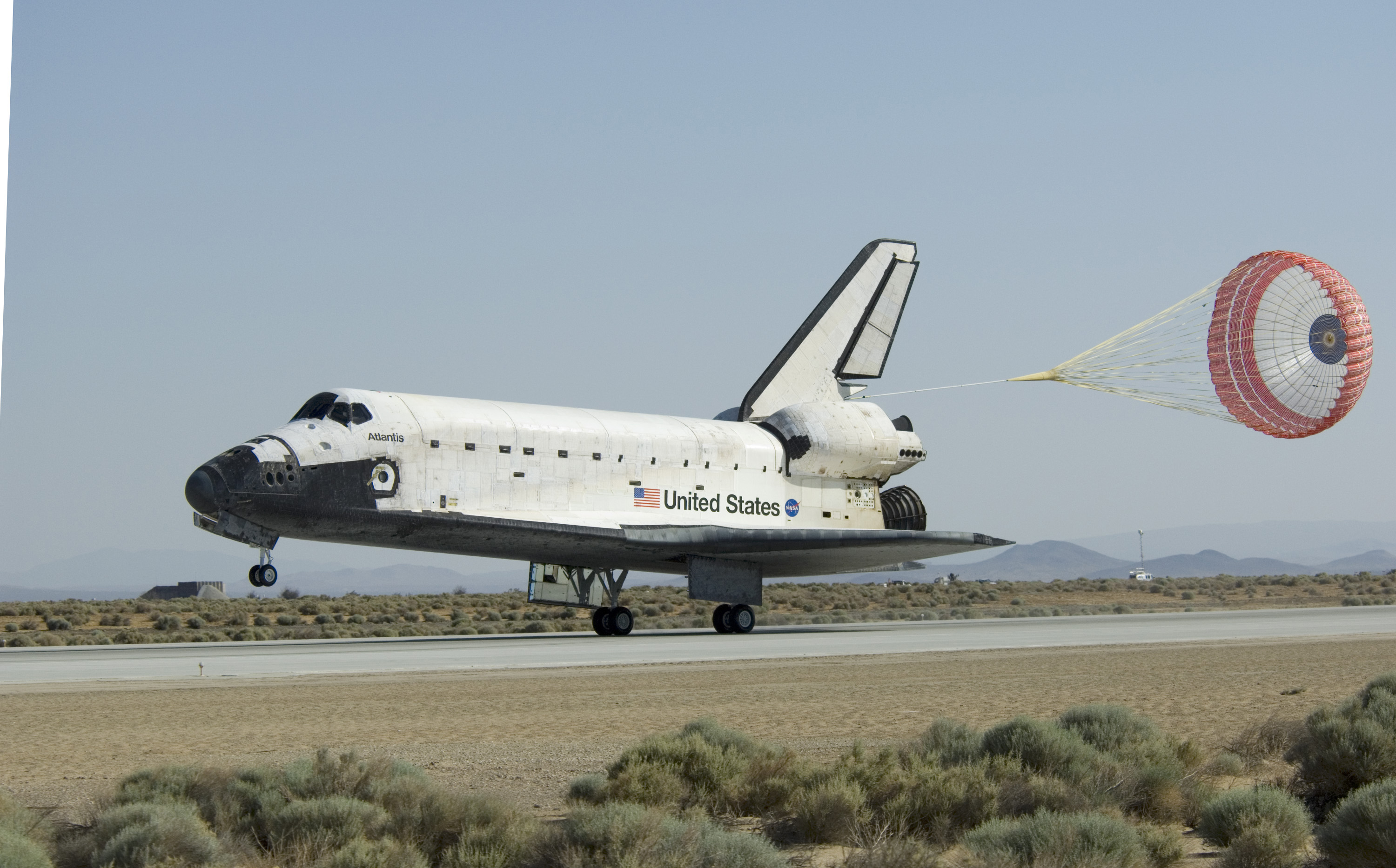 Space Shuttle Atlantis' drag chute is deployed as the spacecraft rolls toward wheels stop on Runway 22 at Edwards Air Force Base in California, ending the STS-125 mission to repair and upgrade NASA's Hubble Space Telescope. The main landing gear touched down at 8:39:05 a.m. (PDT) on May 24, 2009. Nose gear touchdown was at 8:39:15 a.m. Wheel-stop was at 8:40:15 a.m., bringing the mission's elapsed time to 12 days, 21 hours, 37 minutes, 9 seconds. Landing opportunities on May 22, May 23 and May 24 were waved off due to weather concerns at NASA's Kennedy Space Center in Florida, the shuttle's primary landing site.